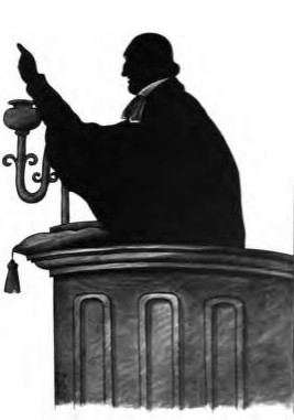 Silhouette portrait of Rev. Timothy Richard Matthews (1795-), Anglican priest in Bedford, United Kingdom.